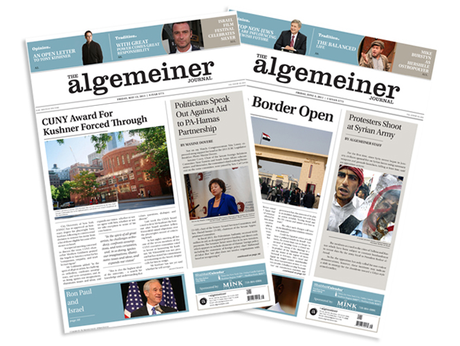 Front pages of The Algemeiner Journal